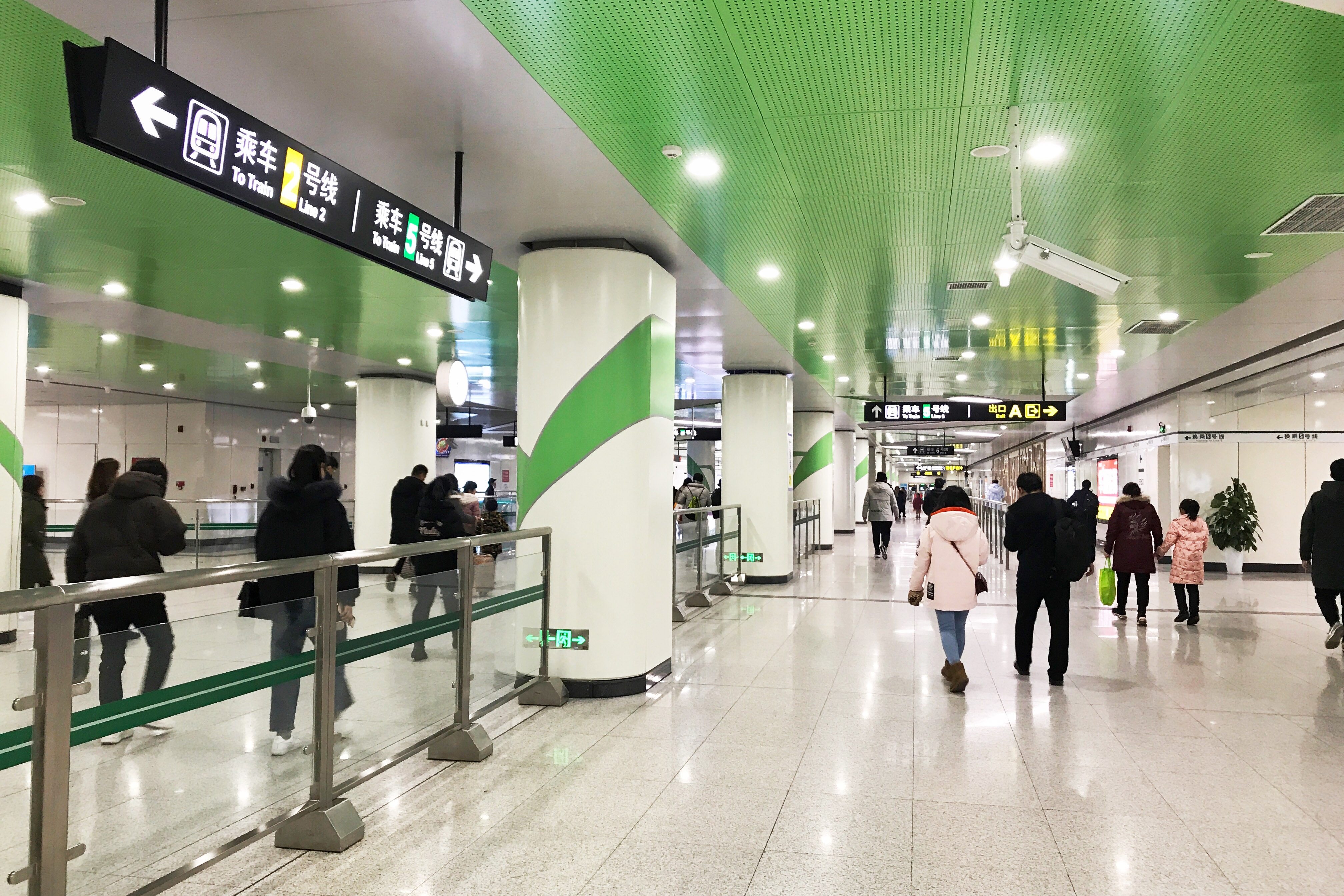 Concourse of Zhengzhou Metro Nanwulibao Station